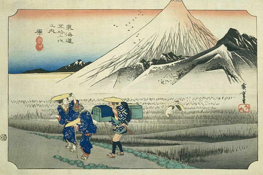 Hara on the Tokaido, ukiyo-e prints by Hiroshige